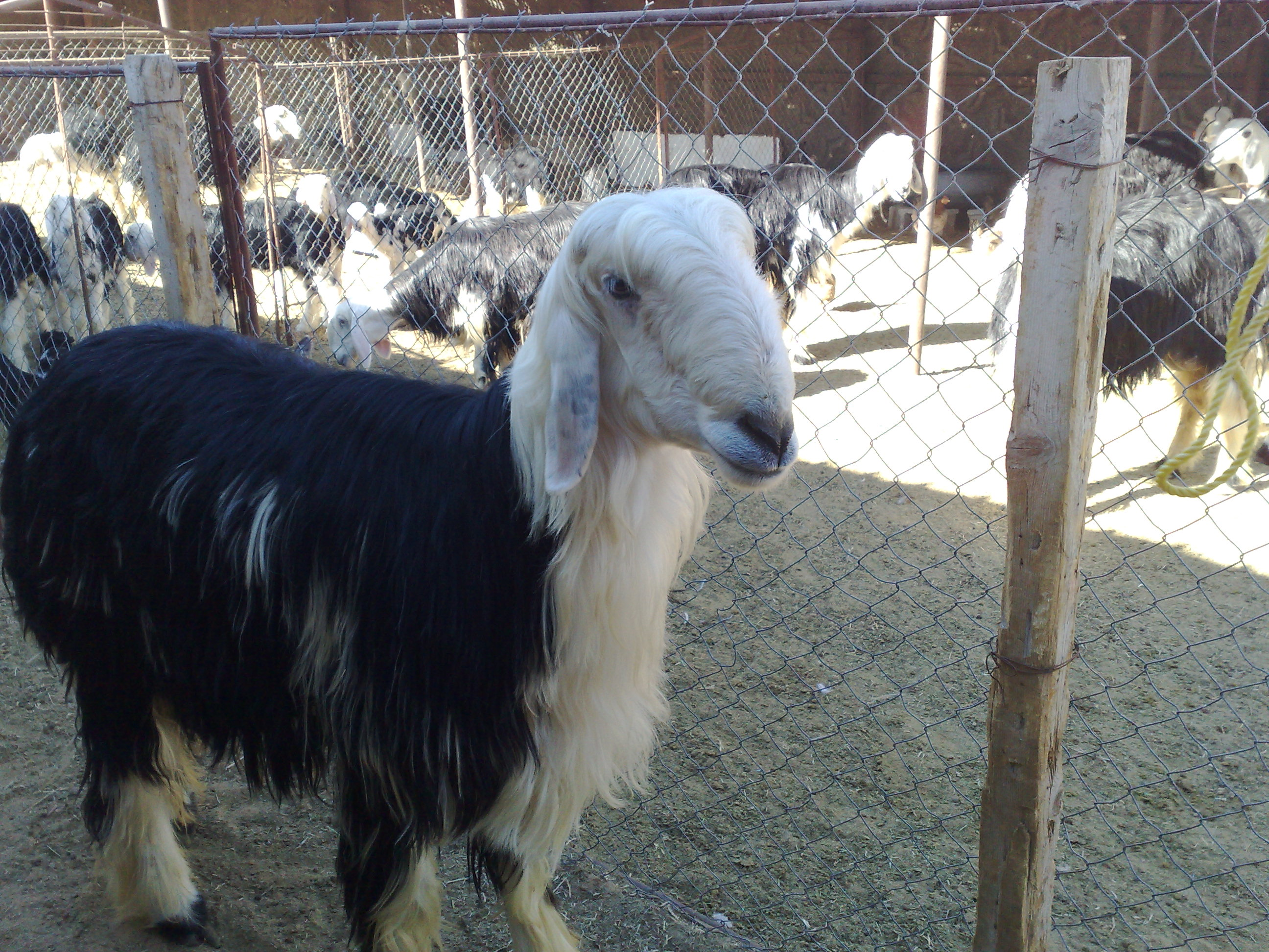 najdi sheep in Unaizah